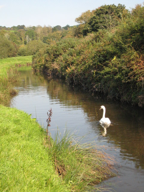 River Cober in Loe Valley